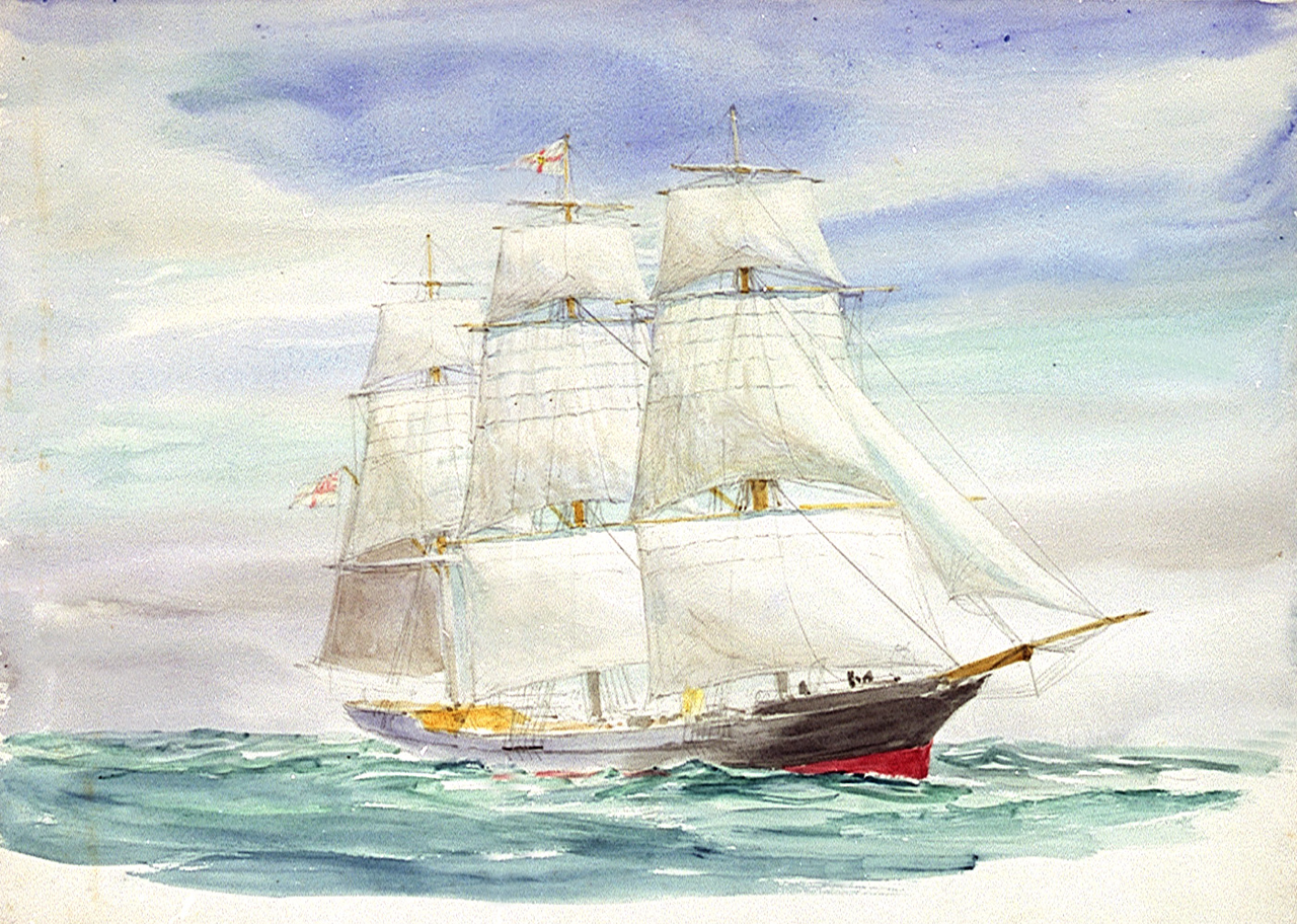 Valhalla. Medium includes graphite. Steel Auxiliary 3 masted Steam yacht VALHALLA built by Ramage & Ferguson in 1892 for her first owner Capt. J. F. Laycock of Bawtry, Portsmouth, a British Army officer and Olympic sailor. She was Launched from the Victoria Shipyard, Leith on 20 October 1892. 1897 Portsmouth register closed. James Lindsay, 26th Earl of Crawford ( 1847–1913), registered her in London in 1902. This picture drawn 1893-1901.